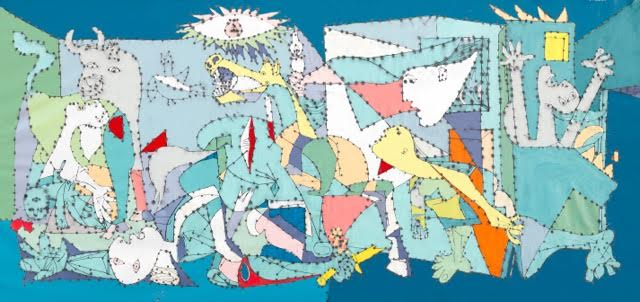 A vSHOT version of Picasso's Guernica created by Mitic, 2010.